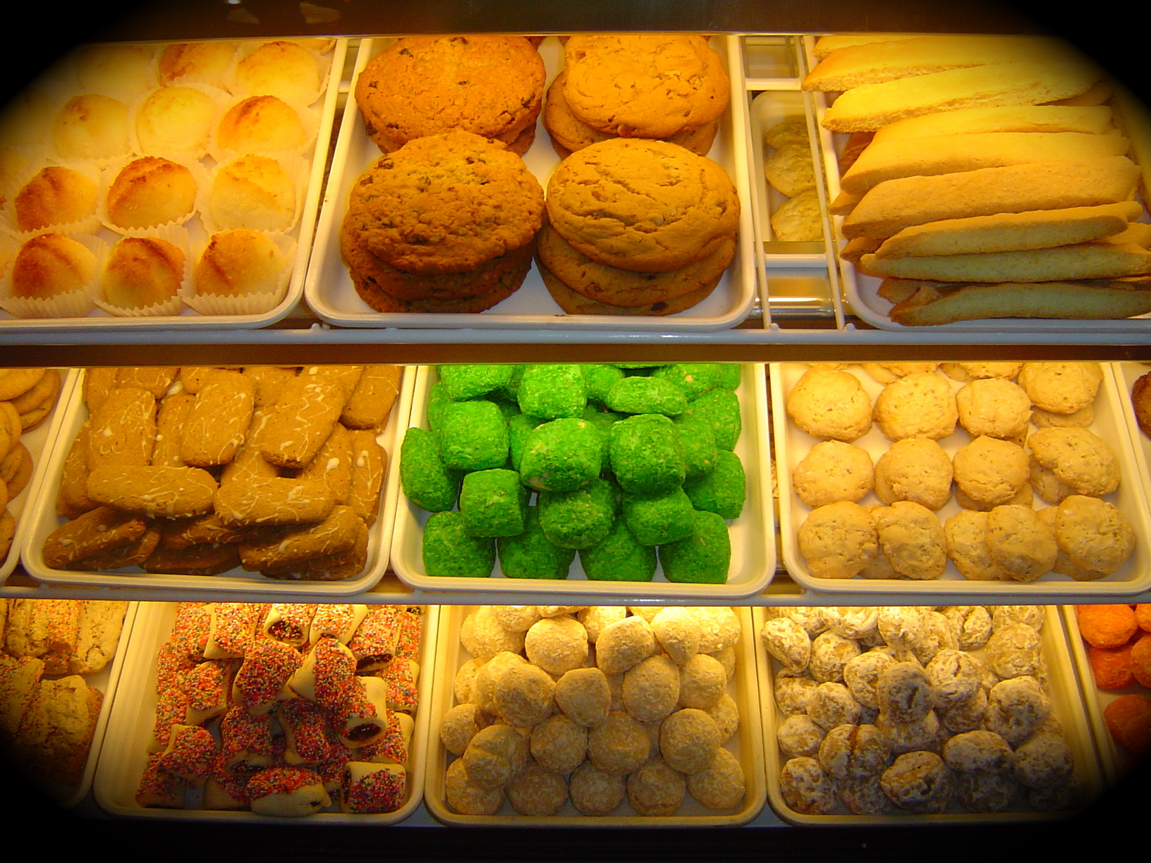 Mid City New Orleans: Brocato's Reopens, 2006, over a year after the neighborhood was severely flooded in the Hurricane Katrina levee failure disaster. Display case of cookies.